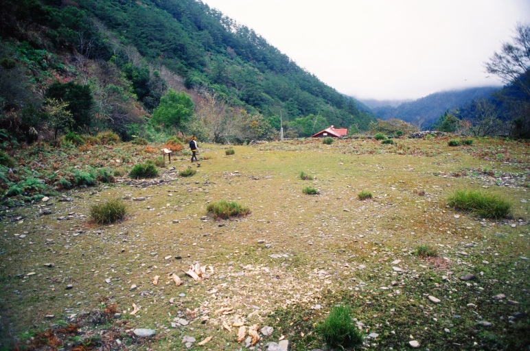 The historical ruins with terrace at Dafen.